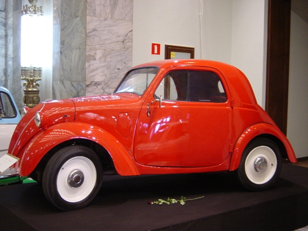 Picture taken in 2004 in Warsaw during old car exhibition.